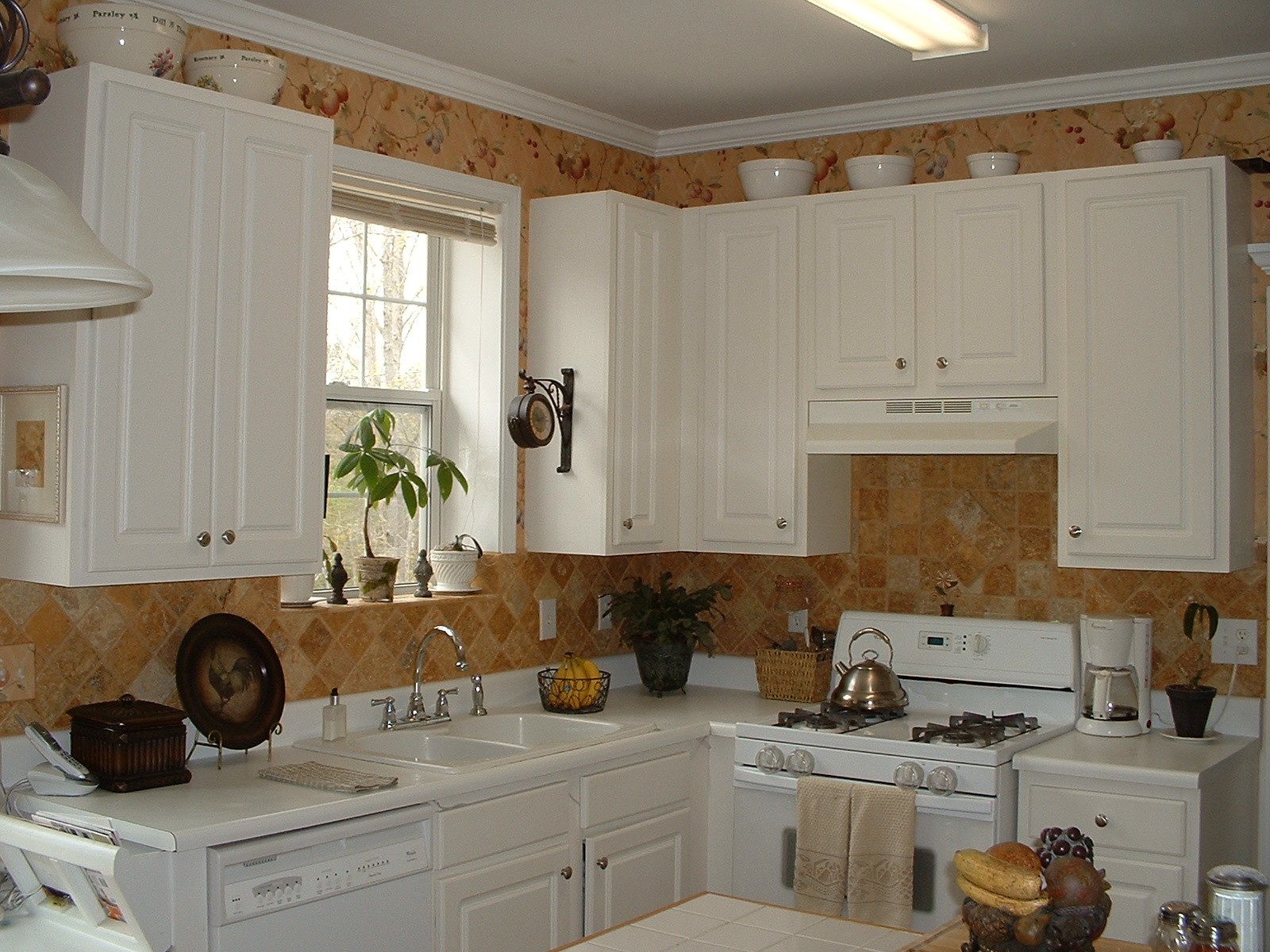 A modern kitchen.